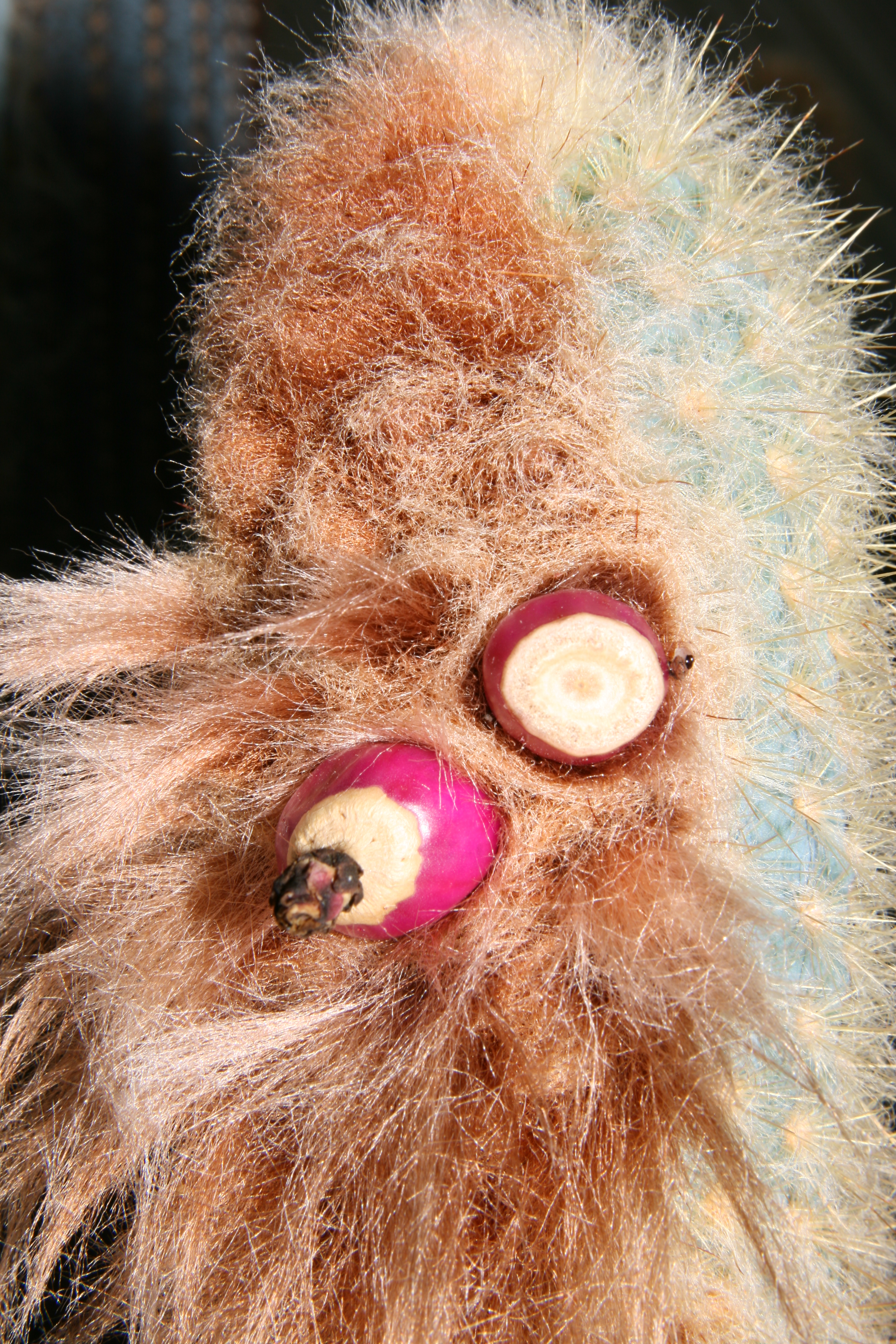 plant with fruits, from Serra da Sincora, Bahia, Brasil